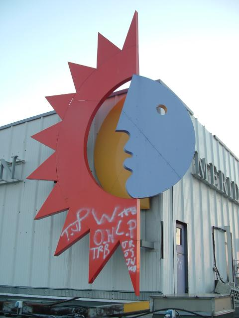 Meridian studios logo The Meridian logo shown on the side wall of the now empty TV studios